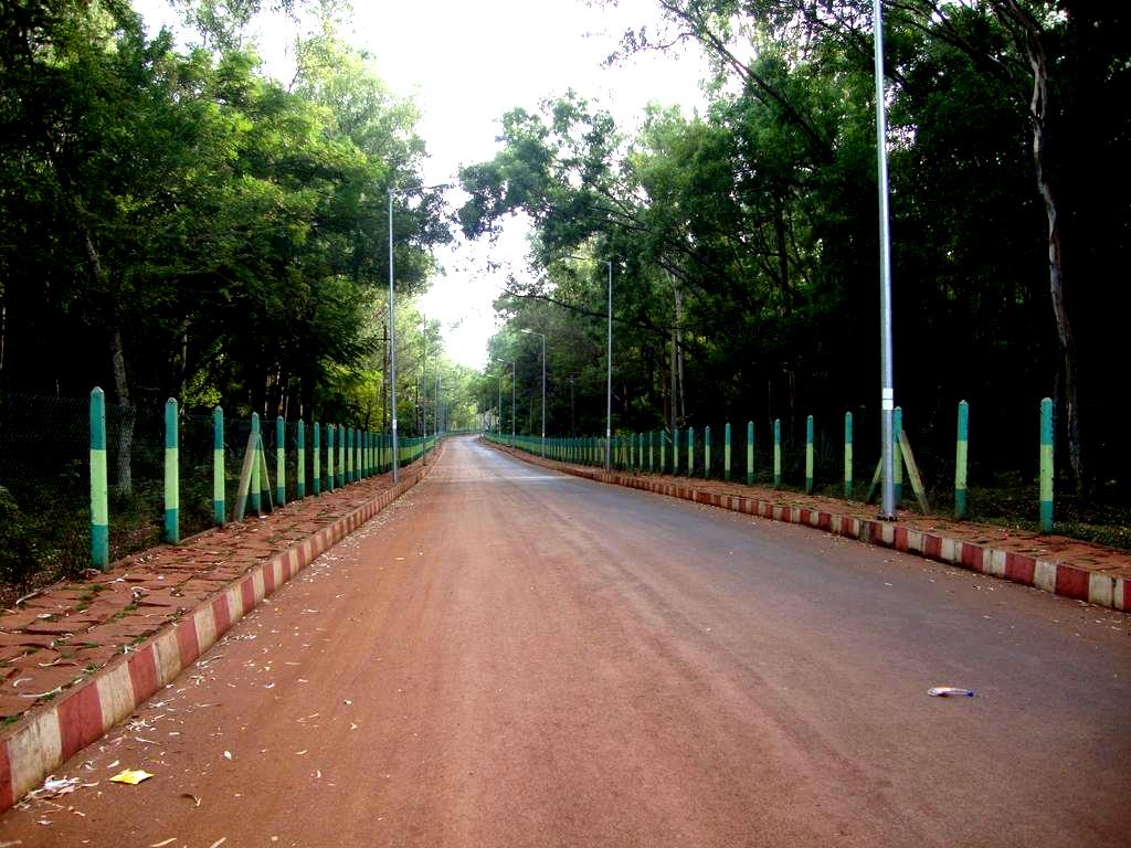 VTU campus2